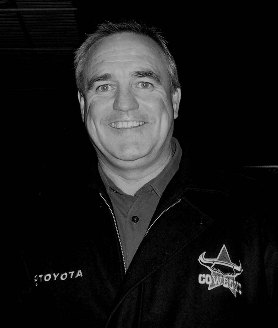 Former Cowboys coach Graham Murray.